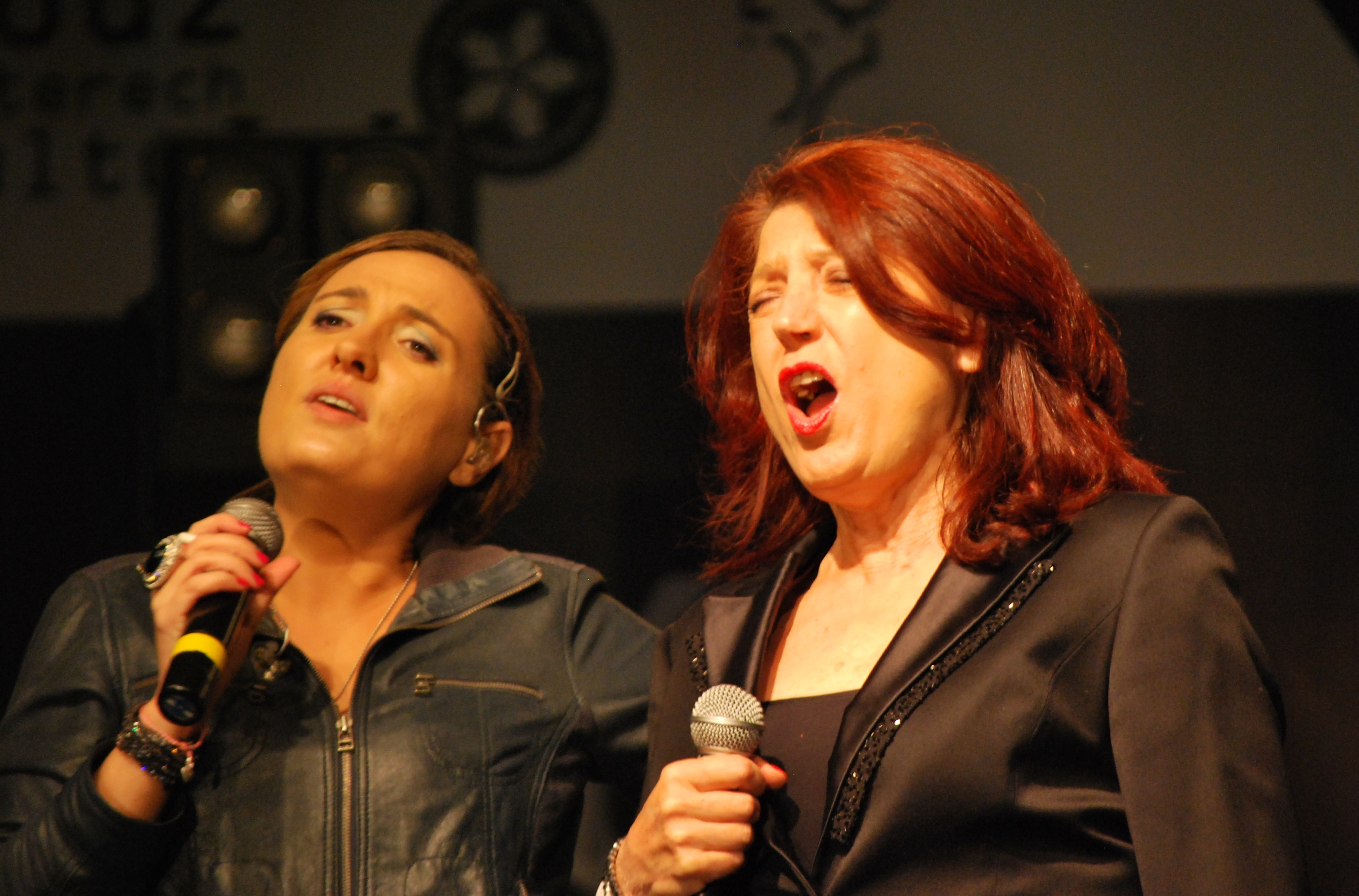 Mika Urbaniak & Urszula Dudziak, Łódź of Four Cultures Festival 2012